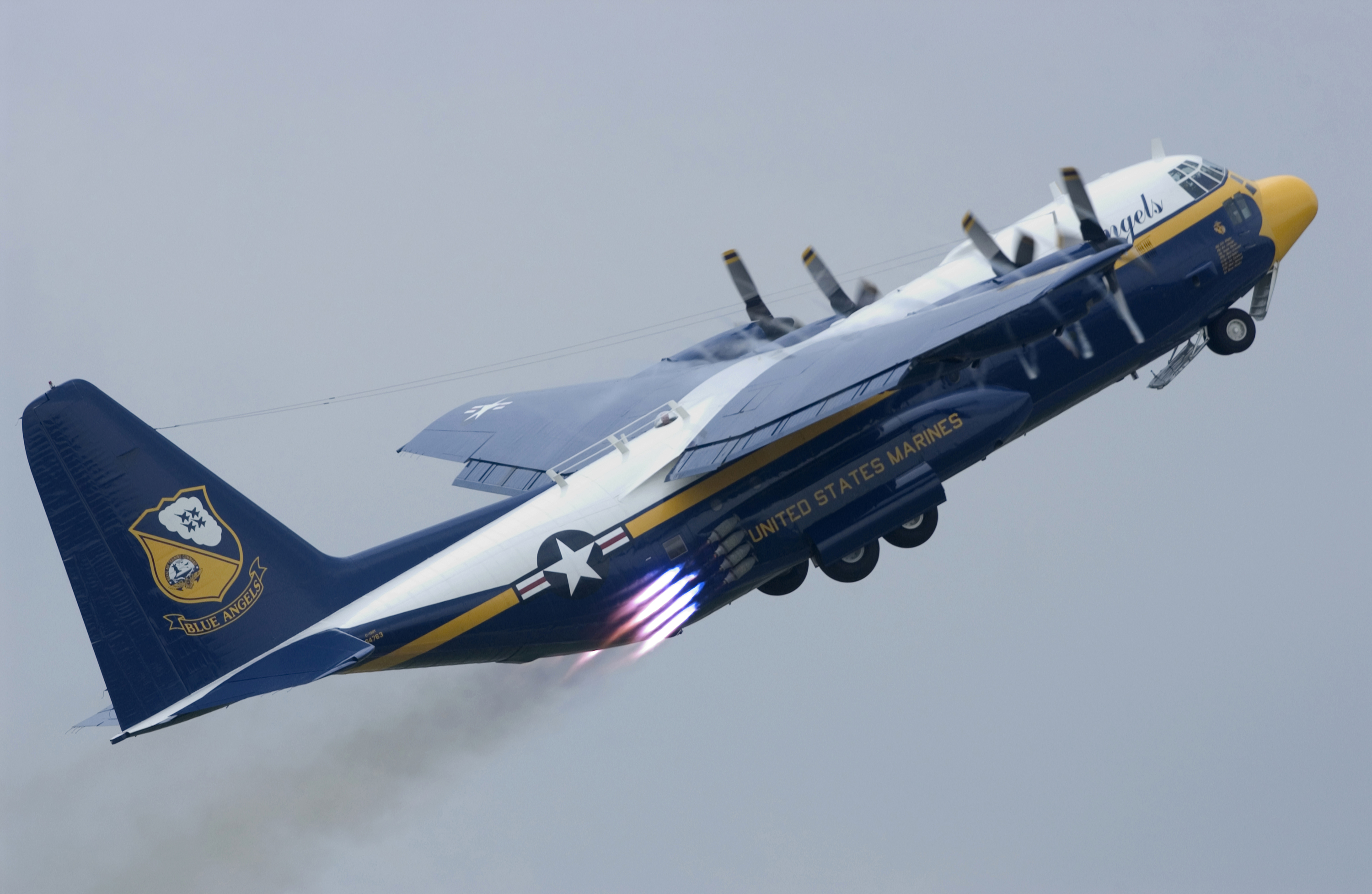 Fat Albert, the support aircraft for the US Navy Blue Angels flight demonstration team.